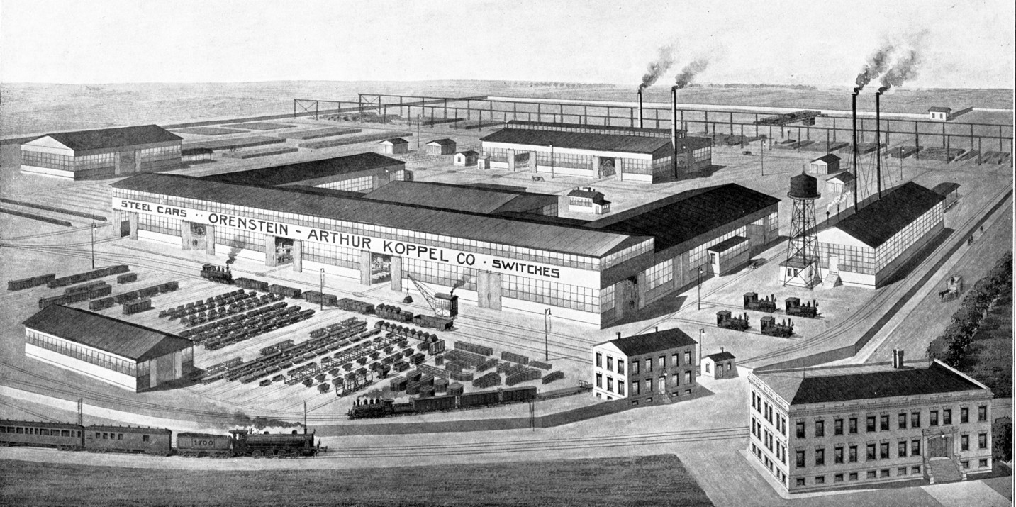 Factory of Orenstein - Arthur Koppel Co. at Koppel, Beaver County, Pennsylvania, USA; The company was founded in 1906 by german railway entrepreneur Arthur Koppel (1851-1908) and started up in 1907. The place was touched by the Pennsylvania Railroad and by the Pittsburgh and Lake Erie Railroad. Factory products: light railway materials, switches, turning platforms, traversers and steel cars for narrow gauge and standard gauge; Beside the factory the company built several apartement houses for the employees and became also the eponym of the borough.